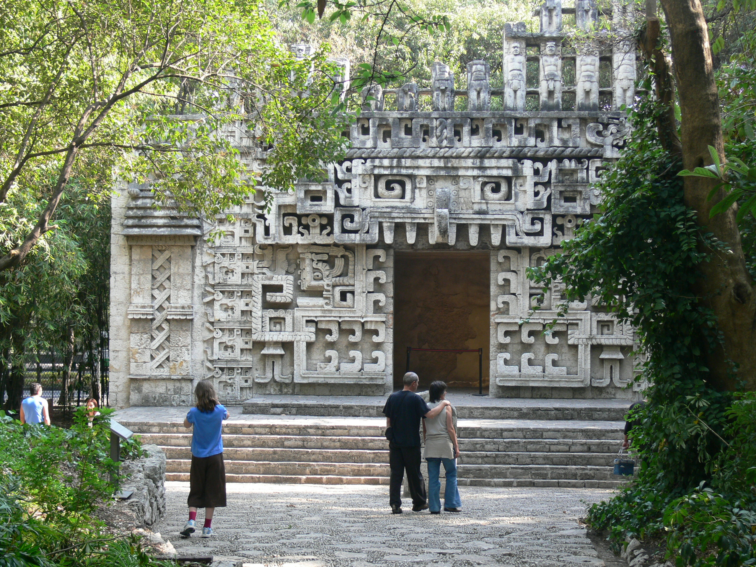 National Museum of Anthropology in Mexico City. Reconstruction of a Maya building in Hochob, Campeche, built in "Chenes style"( 600-900 AD )